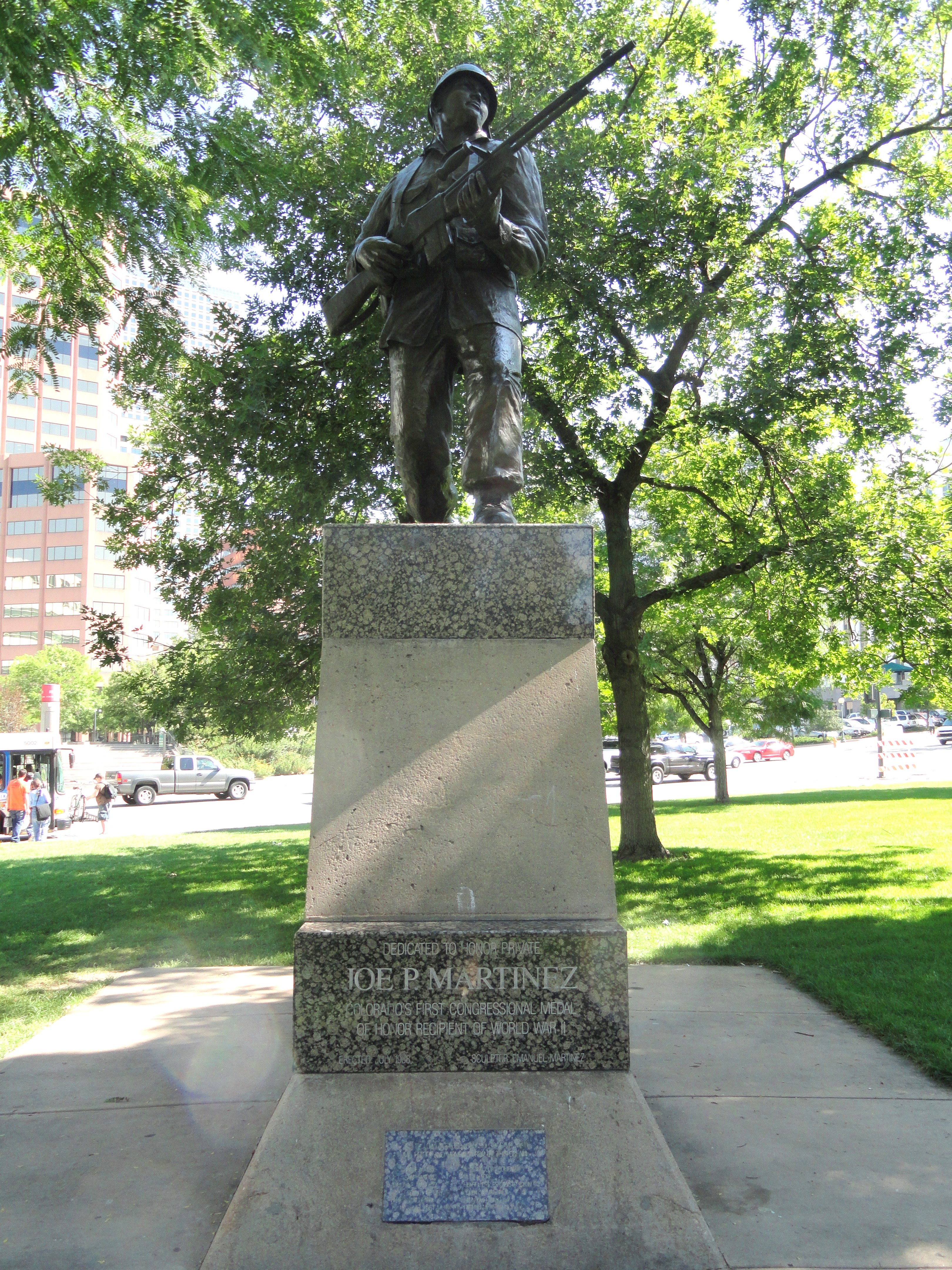 Joe P. Martinez memorial statue, Civic Center Park, Denver, Colorado, USA. Pvt. Martinez received the Medal of Honor for his actions on the Aleutian Islands during World War II.